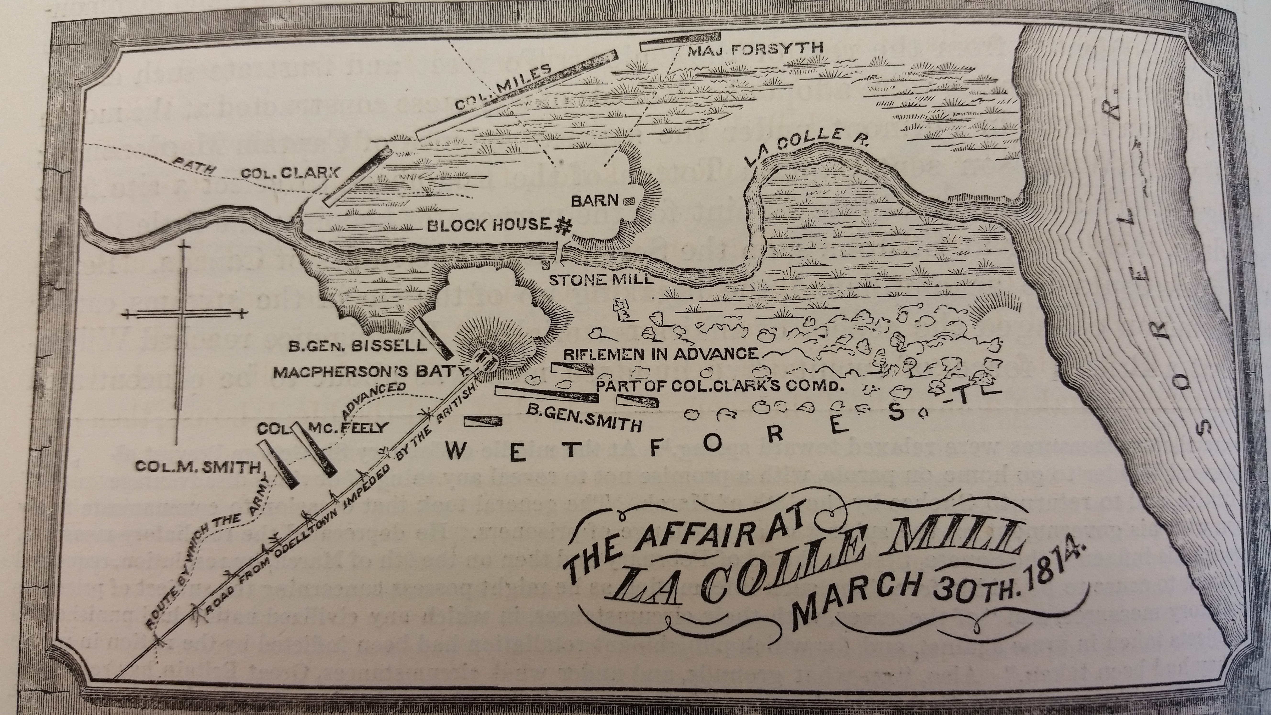 Battle of Lacolle Mille